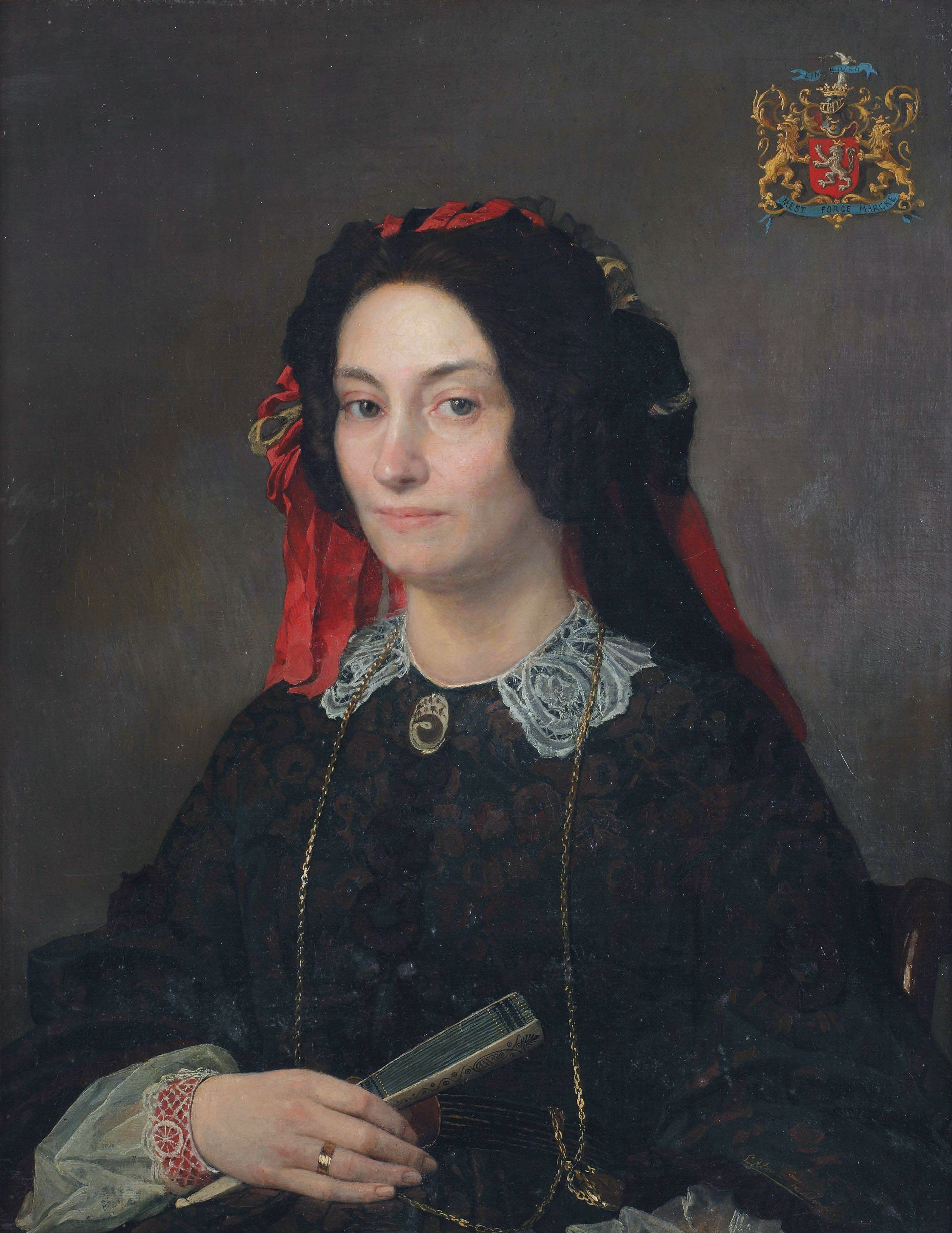 Marie Joséphine Jacoba van Marcke de Lummen (1818-1894)*oil on canvas*71 x 56.5 cm*signed b.r.: L Alma Tadema